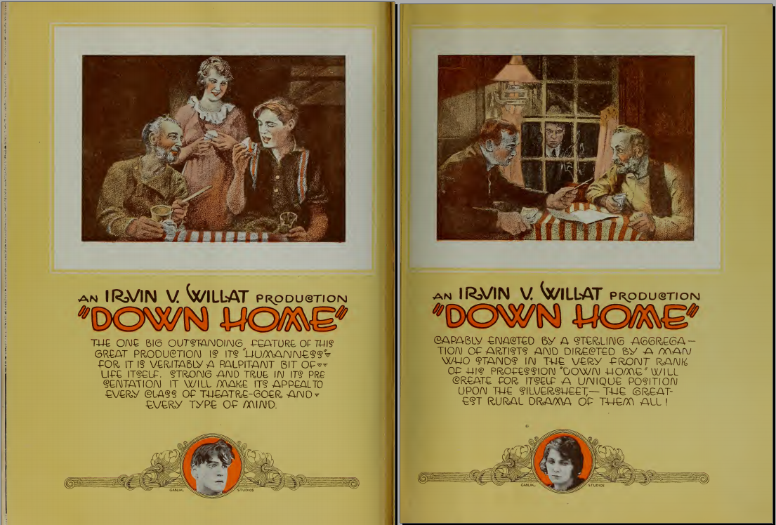 Ad for the American film Down Home (1920) directed by Irvin Willat